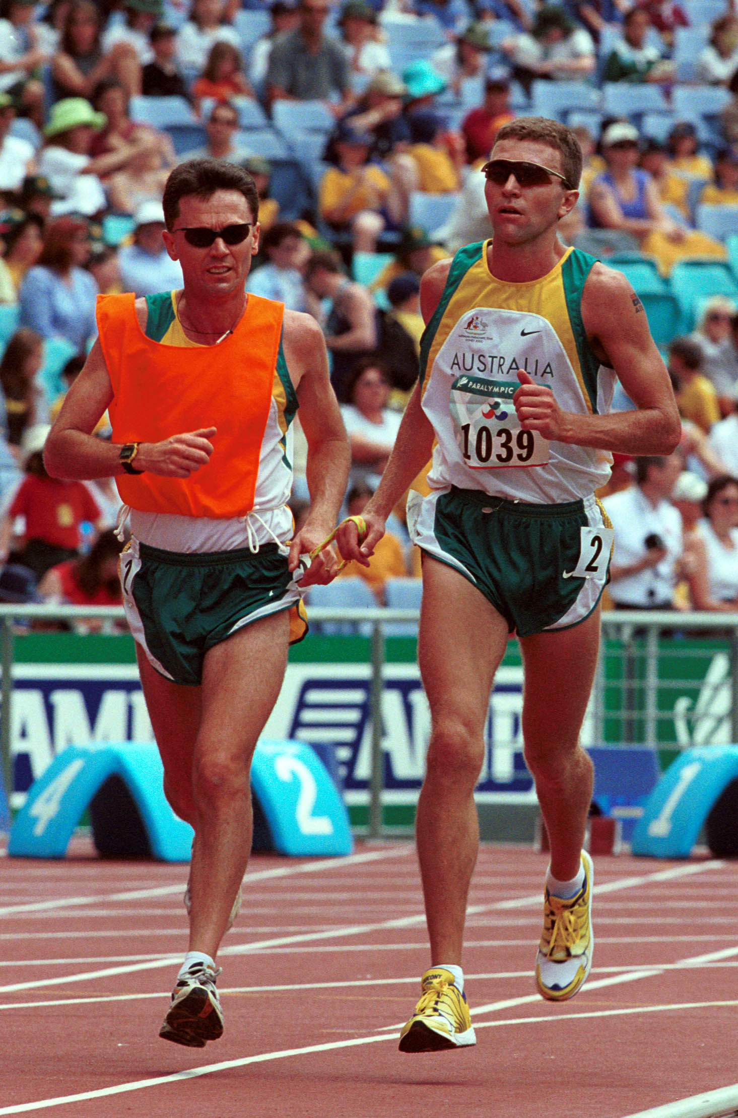 Action shot of visually impaired Australian sprinter Gerrard Gosens during the 10 km T11 event at the 2000 Sydney Paralympic Games, Day 02. Gosens is shown running with his guide.